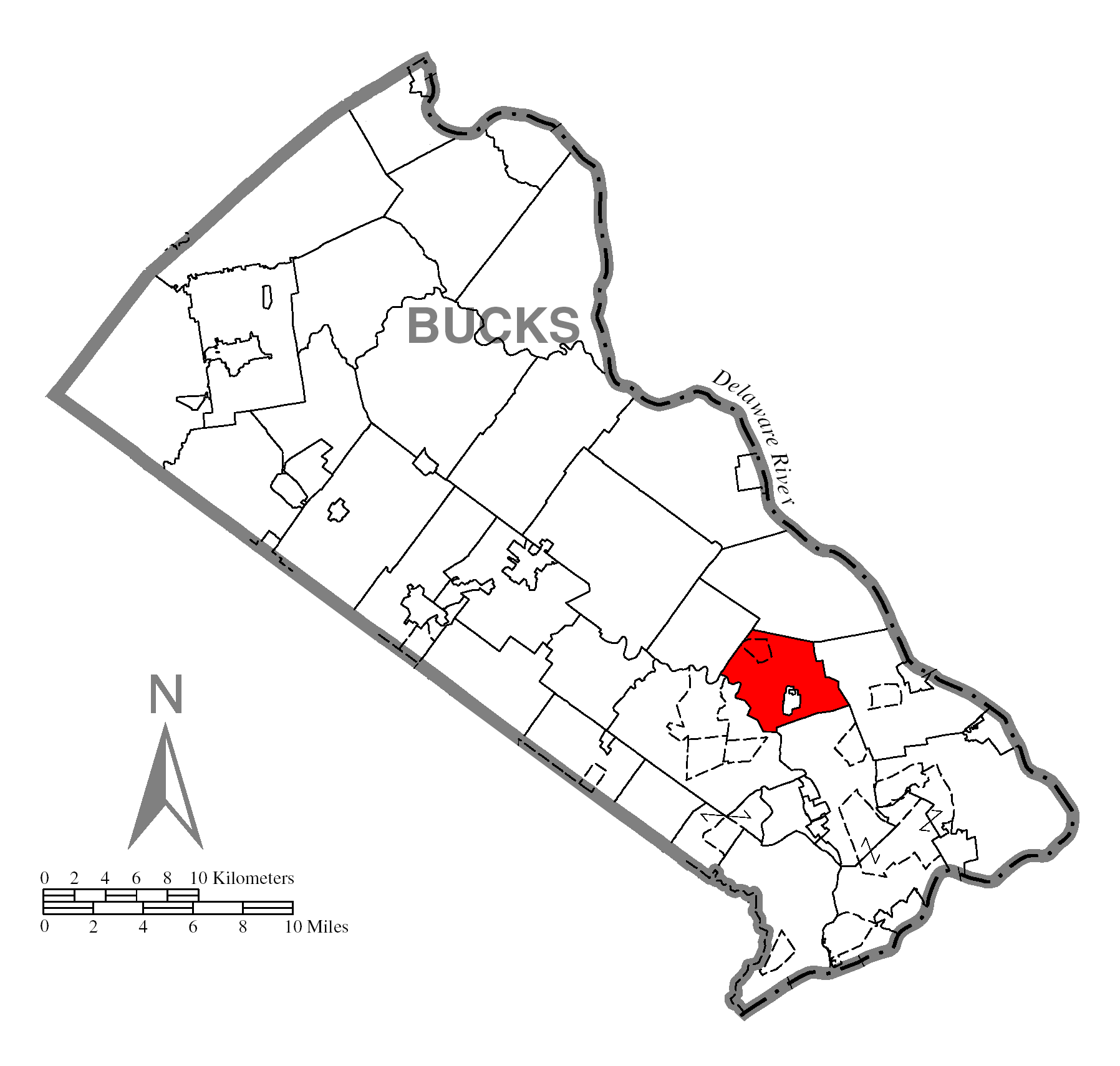 A map of Bucks County showing Newtown Township, Pennsylvania (alternate) highlighted on the map.